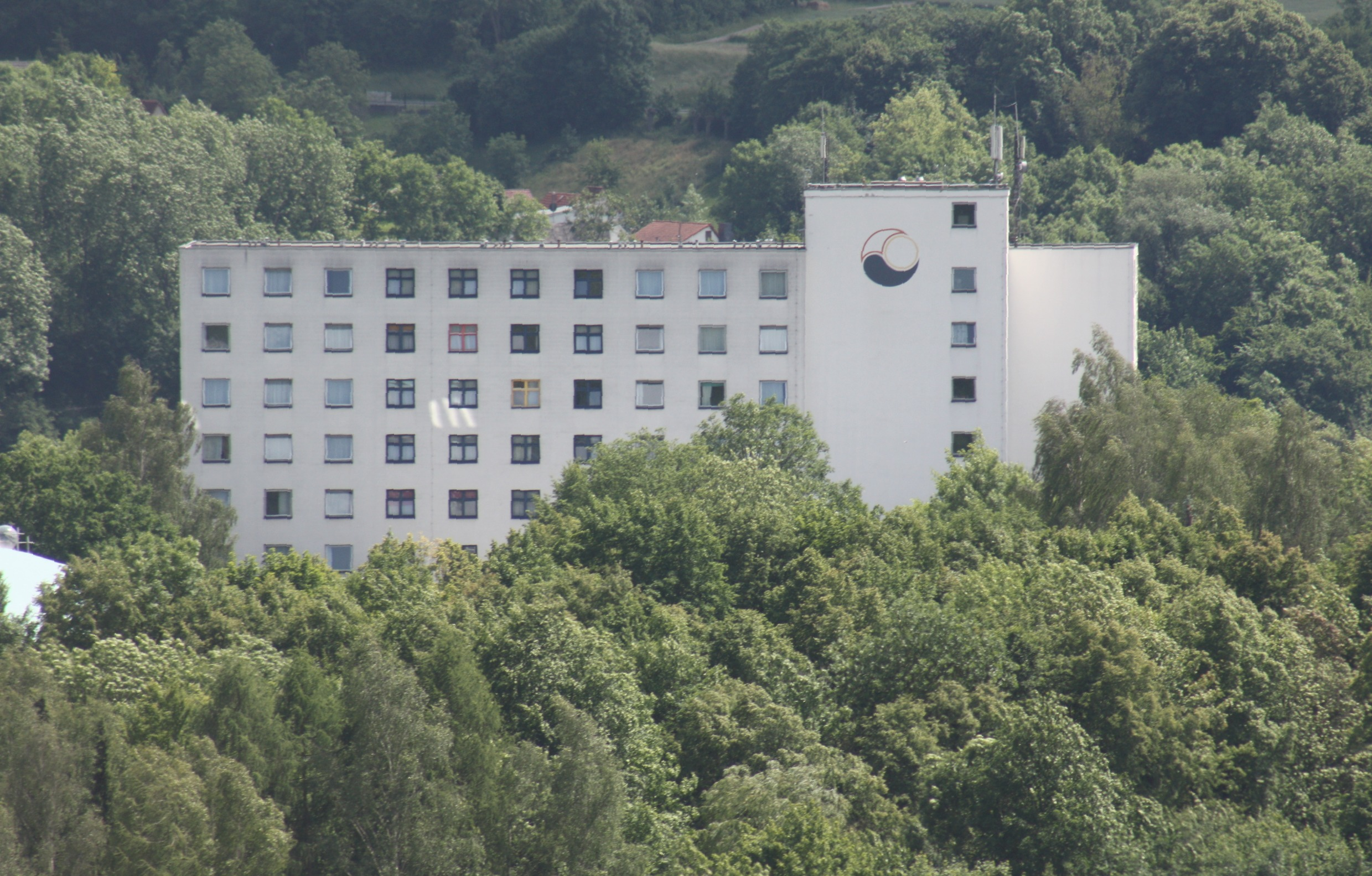 Bad Sulza, the Sophien clinic, telephoto